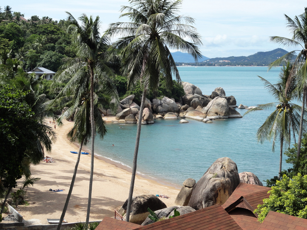 Coral Cove Beach on Ko Samui island, Thailand.